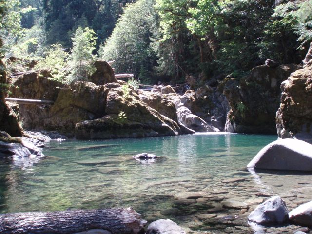 A pool in the Middle Santiam Wilderness, which is within the Willamette National Forest